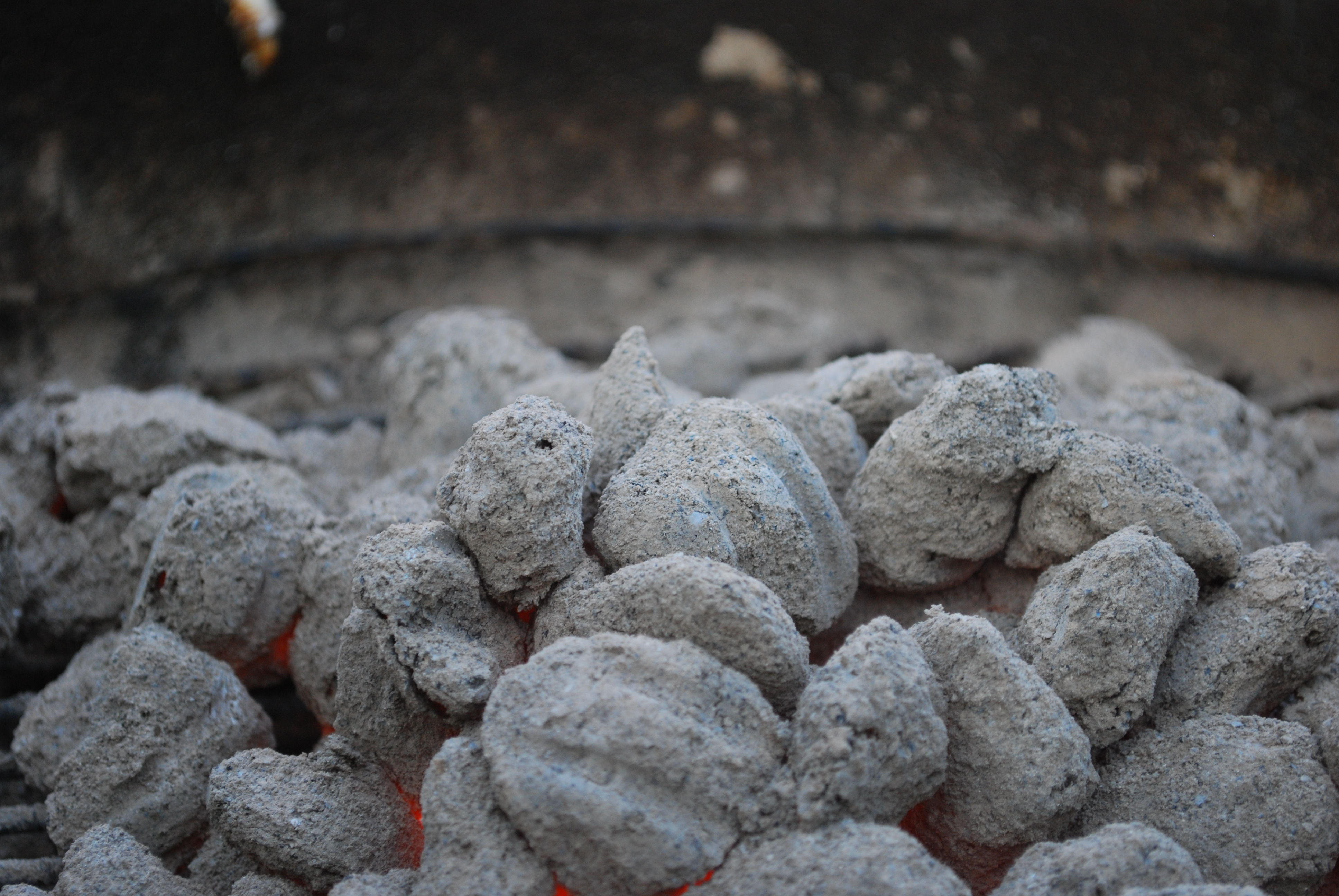 Smoldering charcoal briquettes